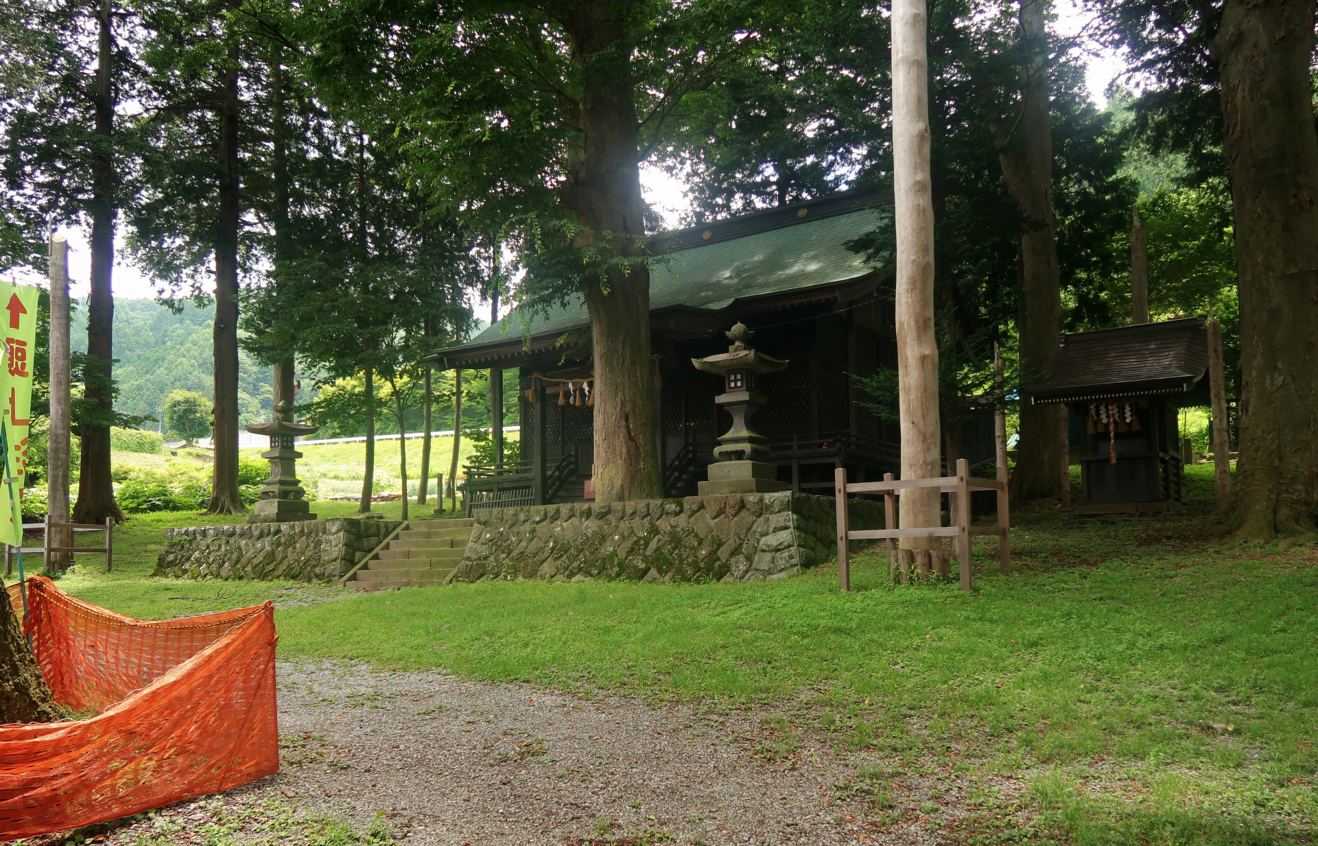 Chikatō Shrine (Toyoda Aruga, Suwa, Nagano)